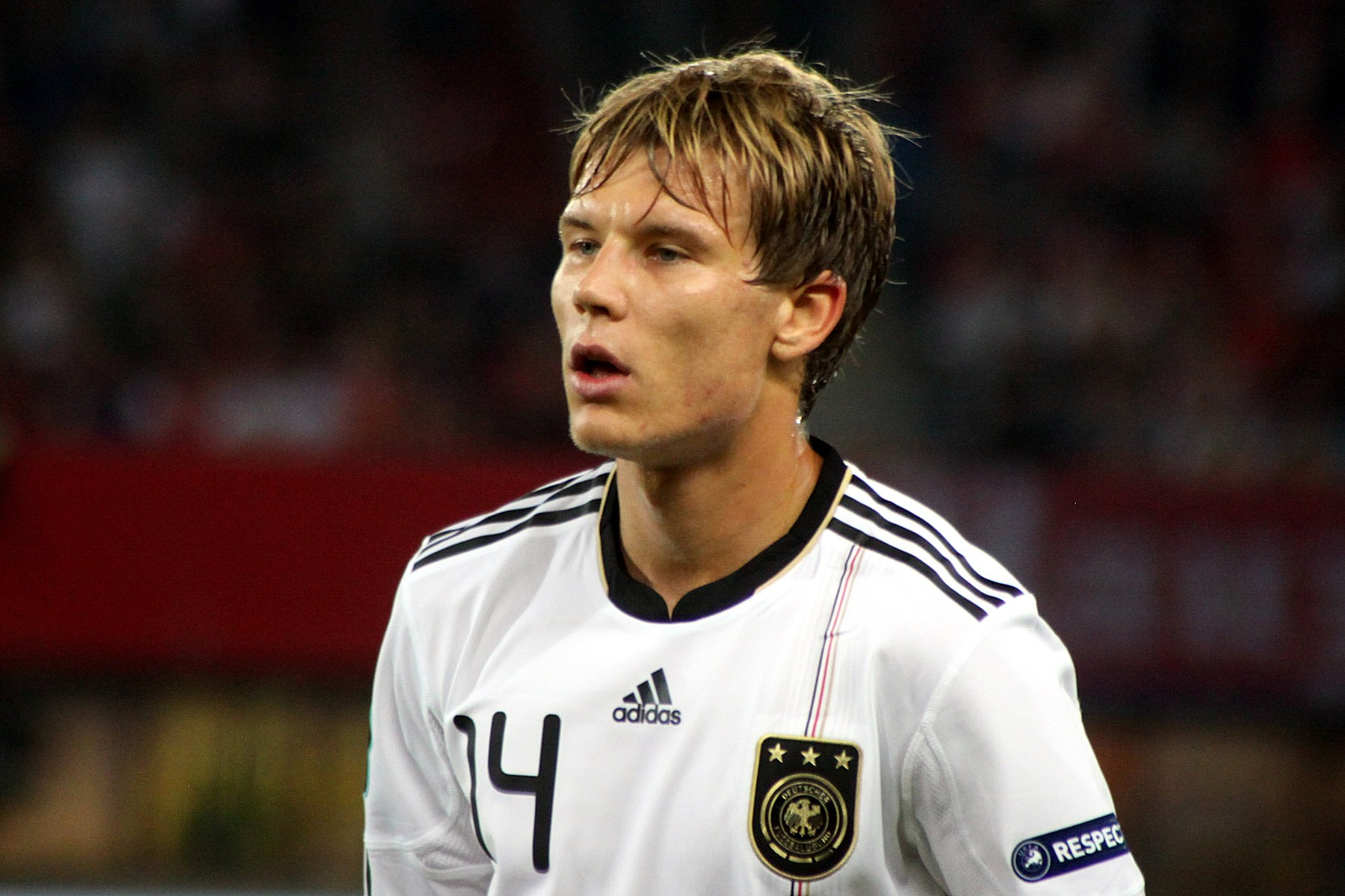 Holger Badstuber (FC Bayern Munich), german national football team